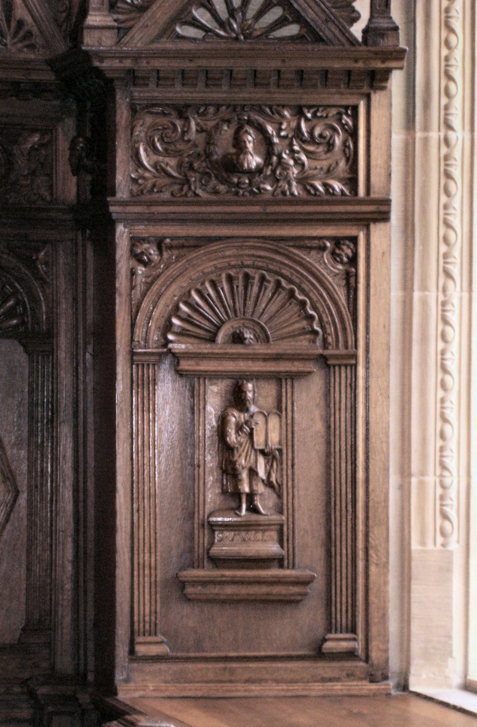 A panel showing Mose in the "Friedenssaal" in the historical city hall in Münster, Westphalia, Germany